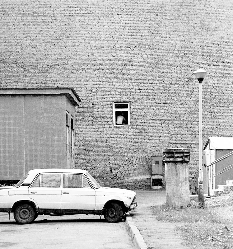 Rusia, Sankt Petersburg, 2002, photo by Jiri Tondl